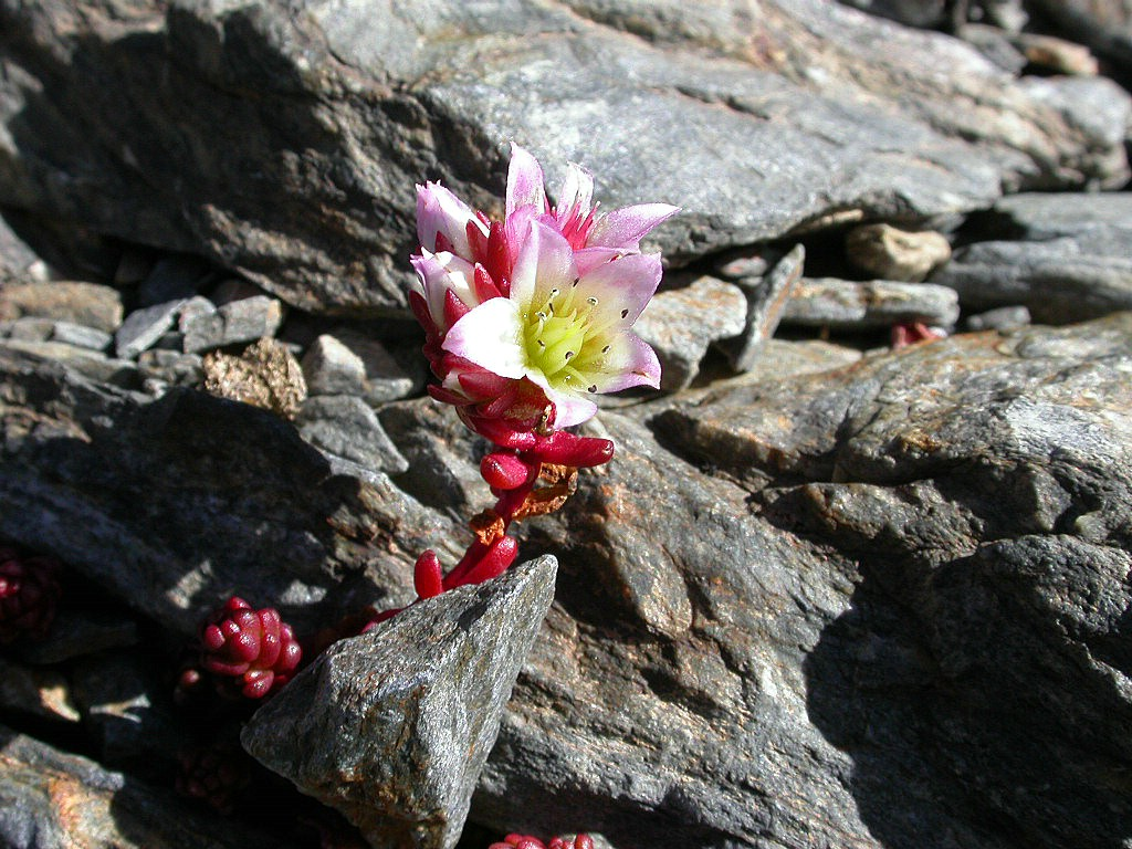 Mucizonia sedoides